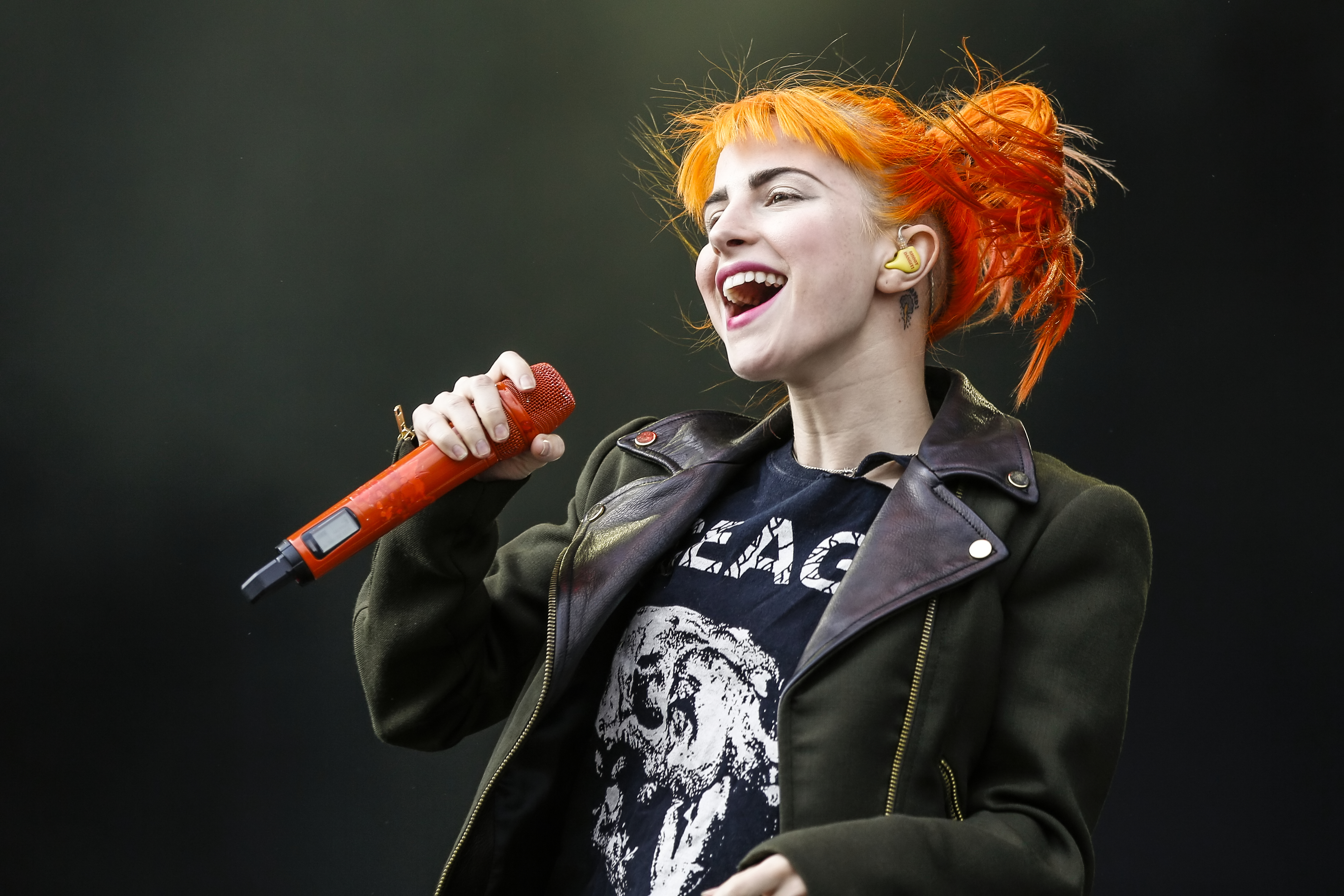 Hayley Williams, lead vocalist of the American rock band Paramore, at Rock im Park 2013 in Nuremberg, Germany.